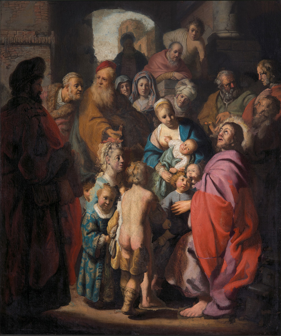 Reproduction of a possible painting by Rembrandt based on a biblical verse, Mark 10 13, "And they brought young children to him", as discovered by Jan Six.